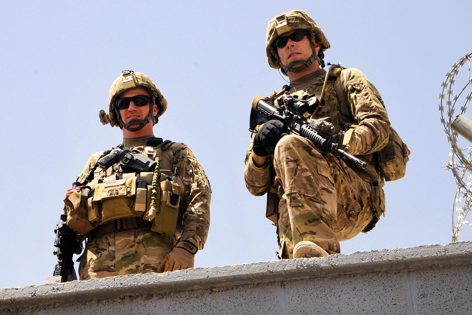 U.S. Army 1st Lt. Brandon Bowden, left, and Army Staff Sgt. Joshua White, right, provide security from a rooftop during a prison visit in Farah City, Farah province, Afghanistan, April 24, 2012. Bowden and White are assigned to Provincial Reconstruction Team Farah security forces.